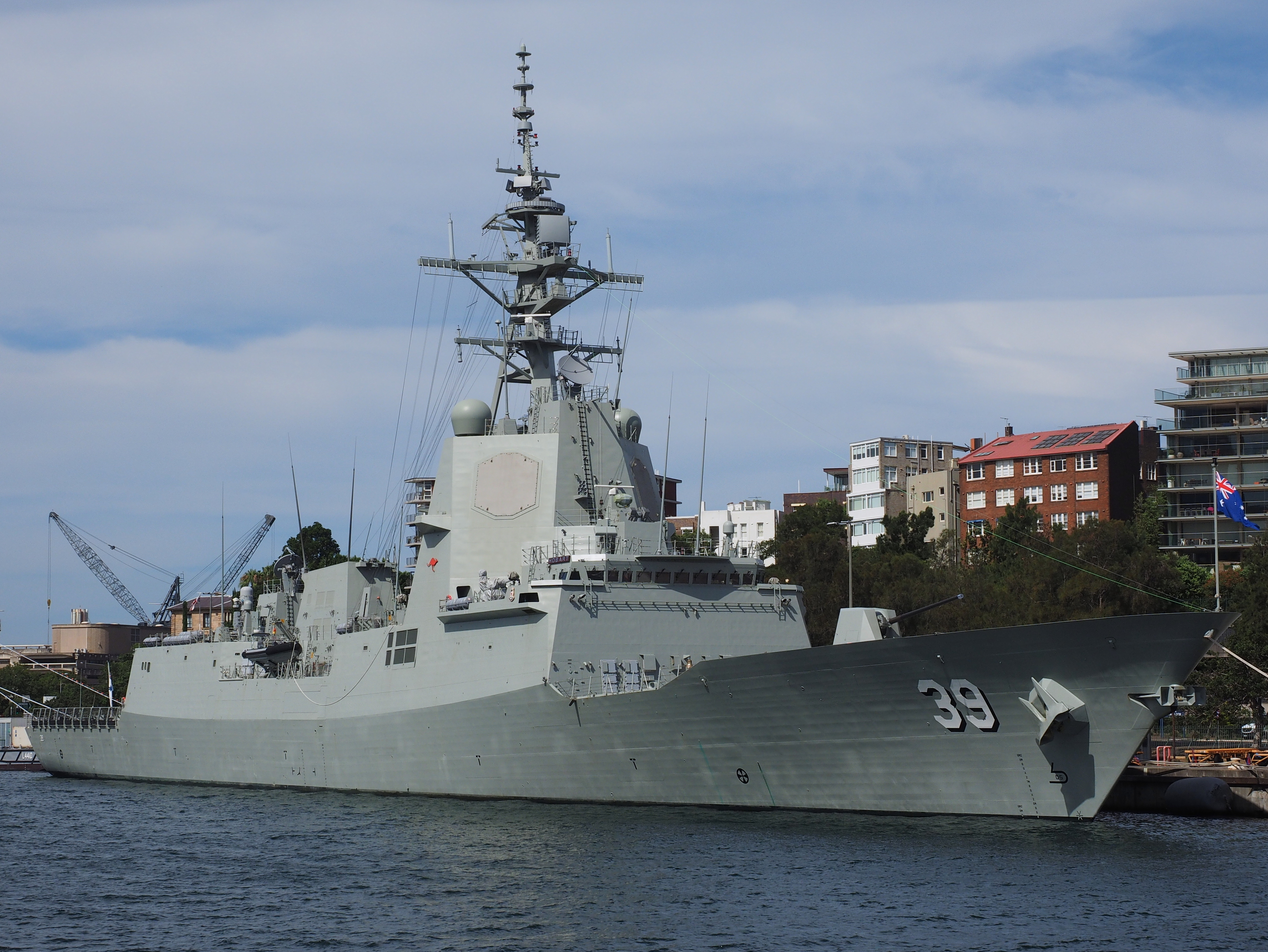 HMAS Hobart docked at HMAS Kuttabul